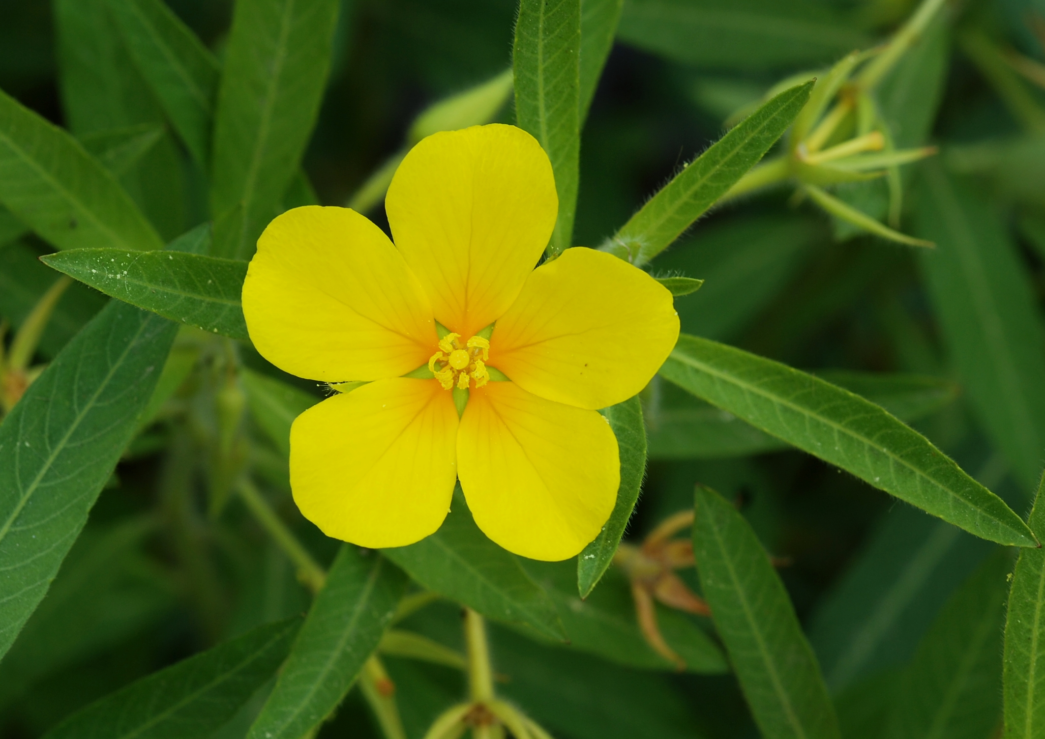 Flower of Primrose-willow (Ludwigia grandiflora subsp. hexapetala). Jardin des Plantes, Paris.